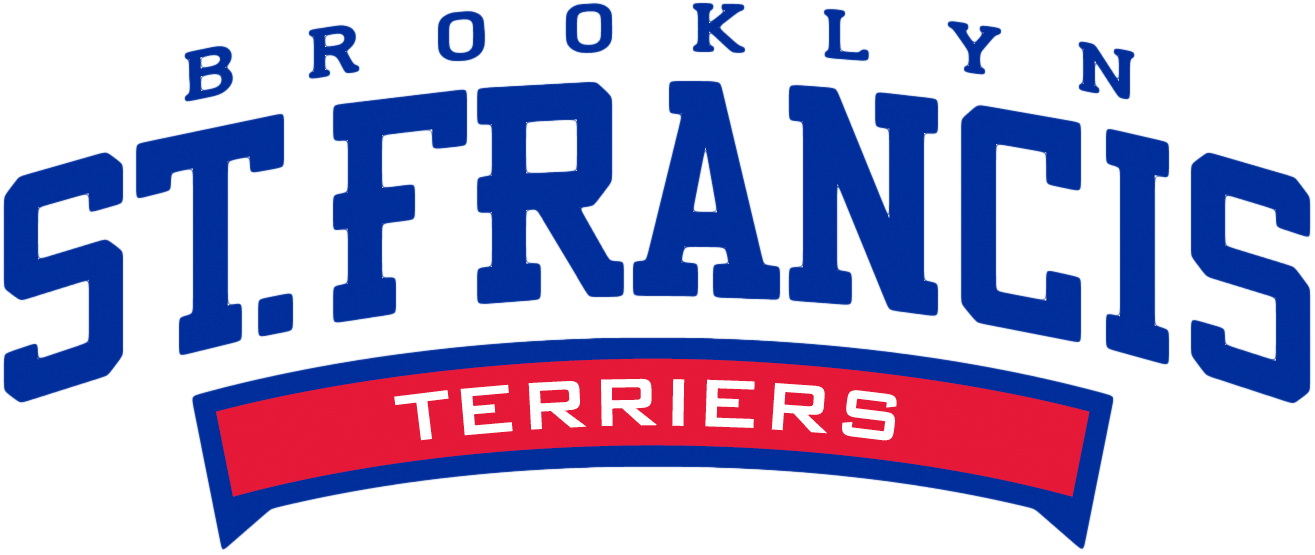 Wordmark logo for St. Francis Brooklyn Terriers athletics in NCAA Division I.